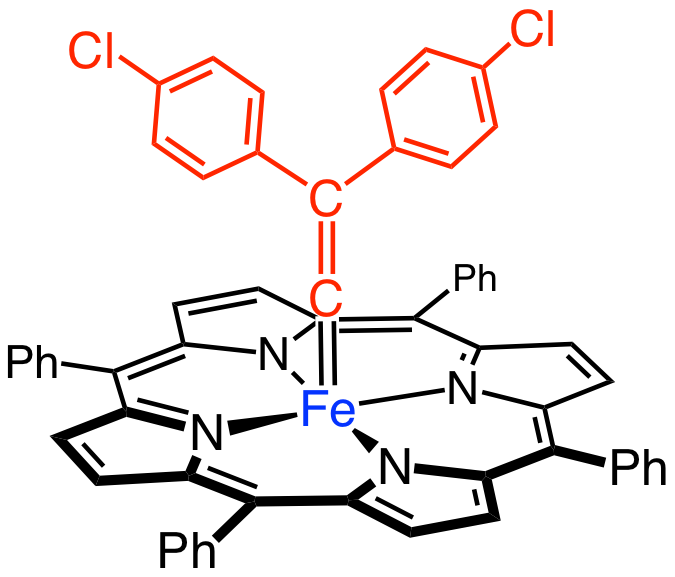 structure of Mansuy's Fe(TPP)CCl2